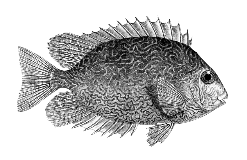 Teuthis vermiculata (=Siganus vermiculatus).